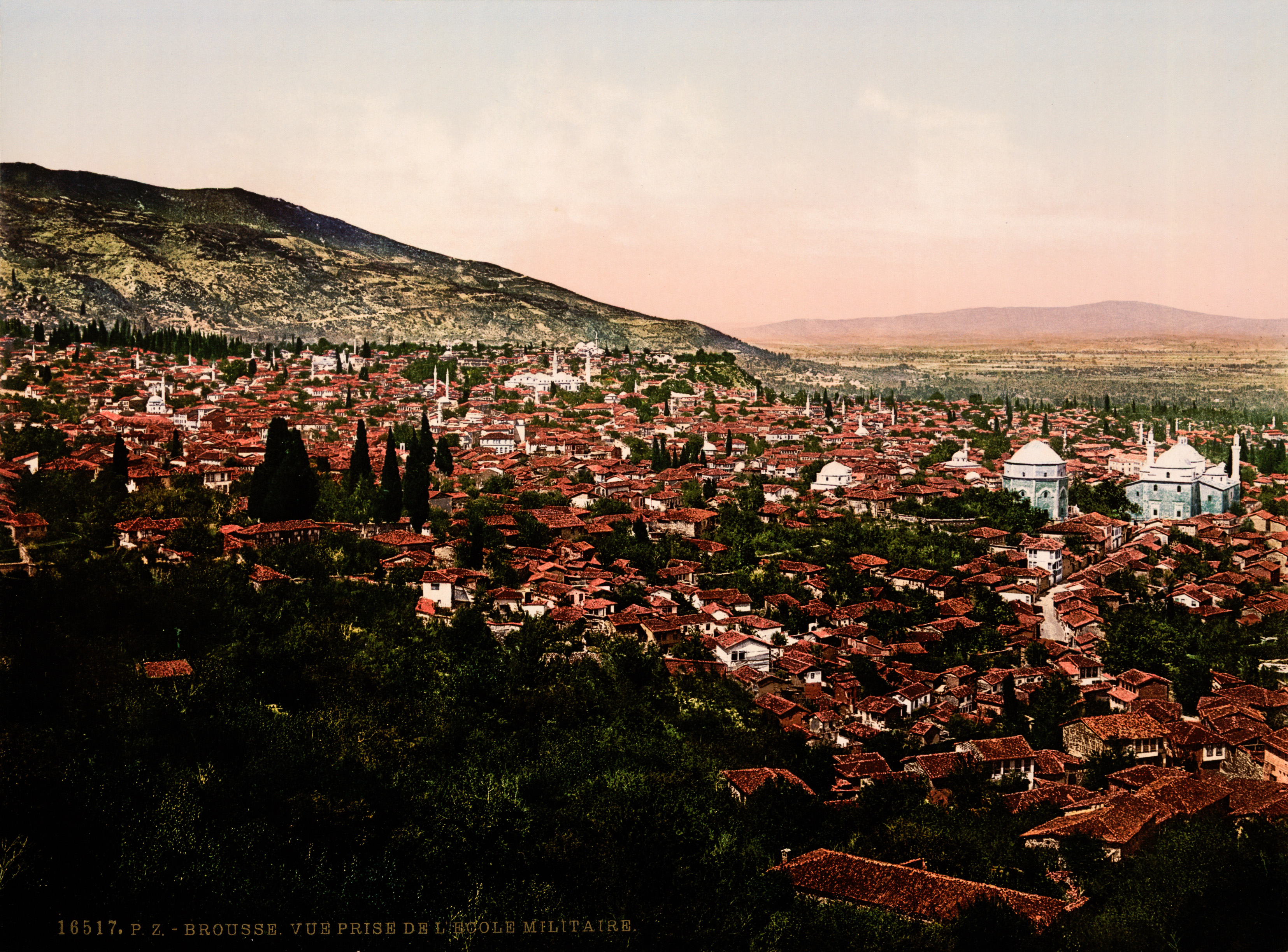 Bursa, Turkey Print no. "16517"